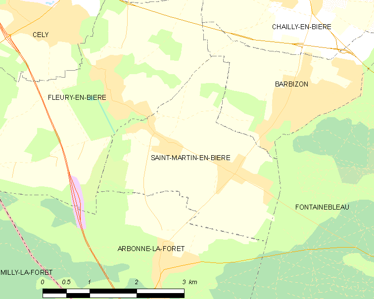 Map of French municipality Saint-Martin-en-Bière